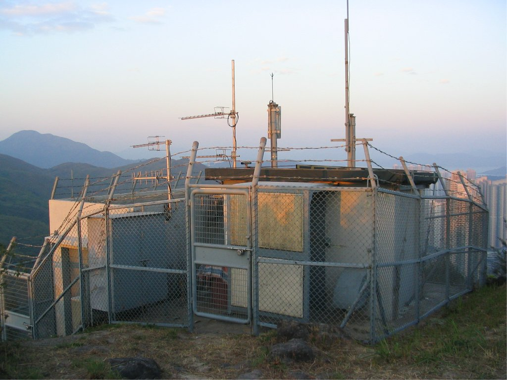 Chiu Keng Wan Shan Radio Station, Television Broadcasts Limited.